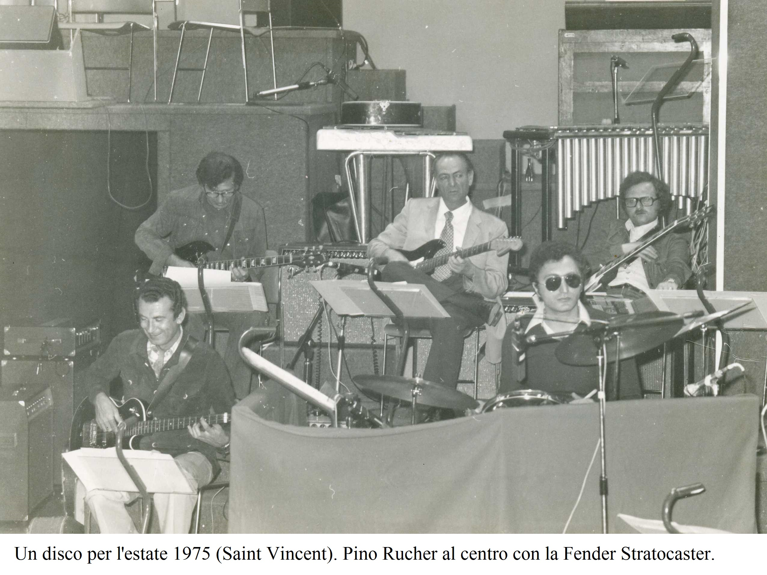 Un disco per l’estate 1975 (Saint Vincent) / A Record for the Summer - 1975 edition - Saint Vincent. At the top centre, Pino Rucher with his Fender Stratocaster between guitarists Sergio Coppotelli and Silvano Chimenti. Below on the left, bass guitarist Maurizio Majorana and, below on the right, drummer Enzo Restuccia.